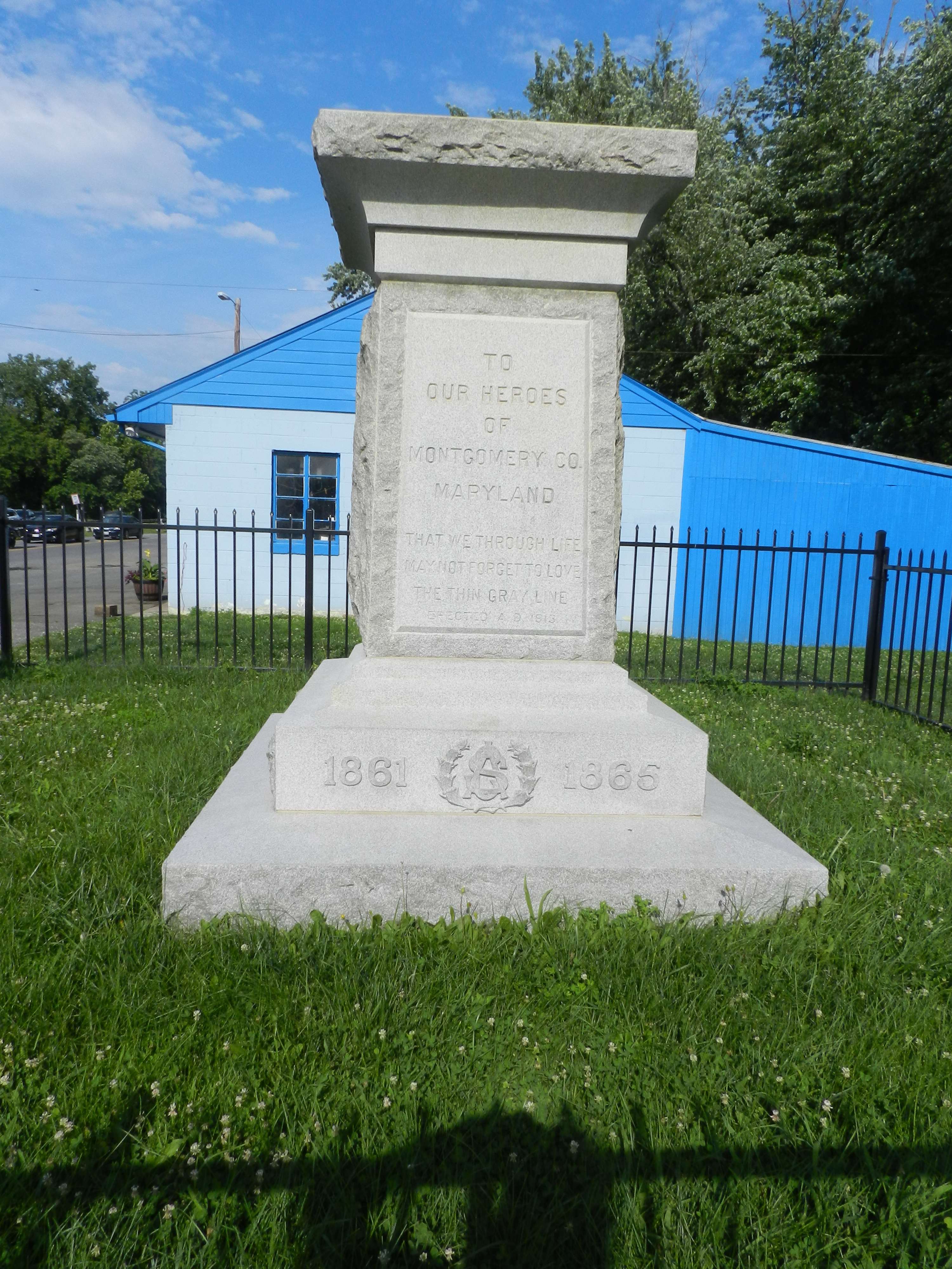 The CSA Monument base installed in public view at White's Ferry, MD. The plaque reads "TO OUR HEROES OF MONTGOMERY CO. MARYLAND ___ THAT WE THROUGH LIFE MAY NOT FORGET TOLOVE THE THIN GRAY LINE ___ ERECTED A.D. 1913 ___ 1861 [CSA logo] 1865"